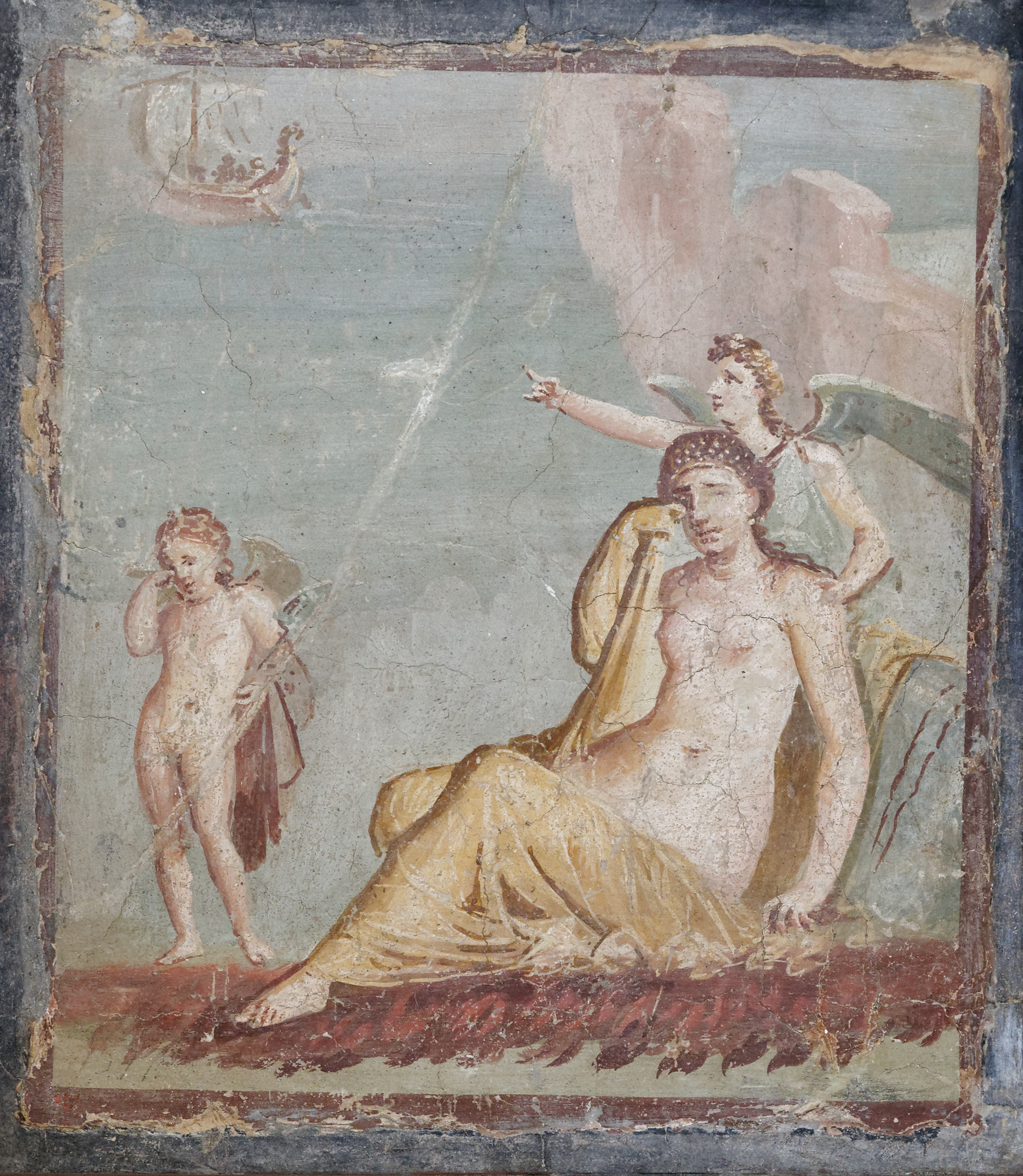 Ariadne weeping as Revenge points towards Theseus's ship.